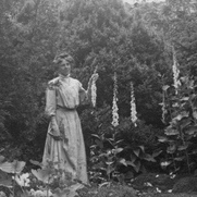 Kitty Kenney standing amongst the foxgloves at Eable House by Linley Blathwayt in 1910